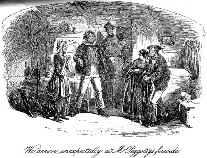 David Copperfield: David and Steerforth arrive unexpectedly at Mr Peggotty's house